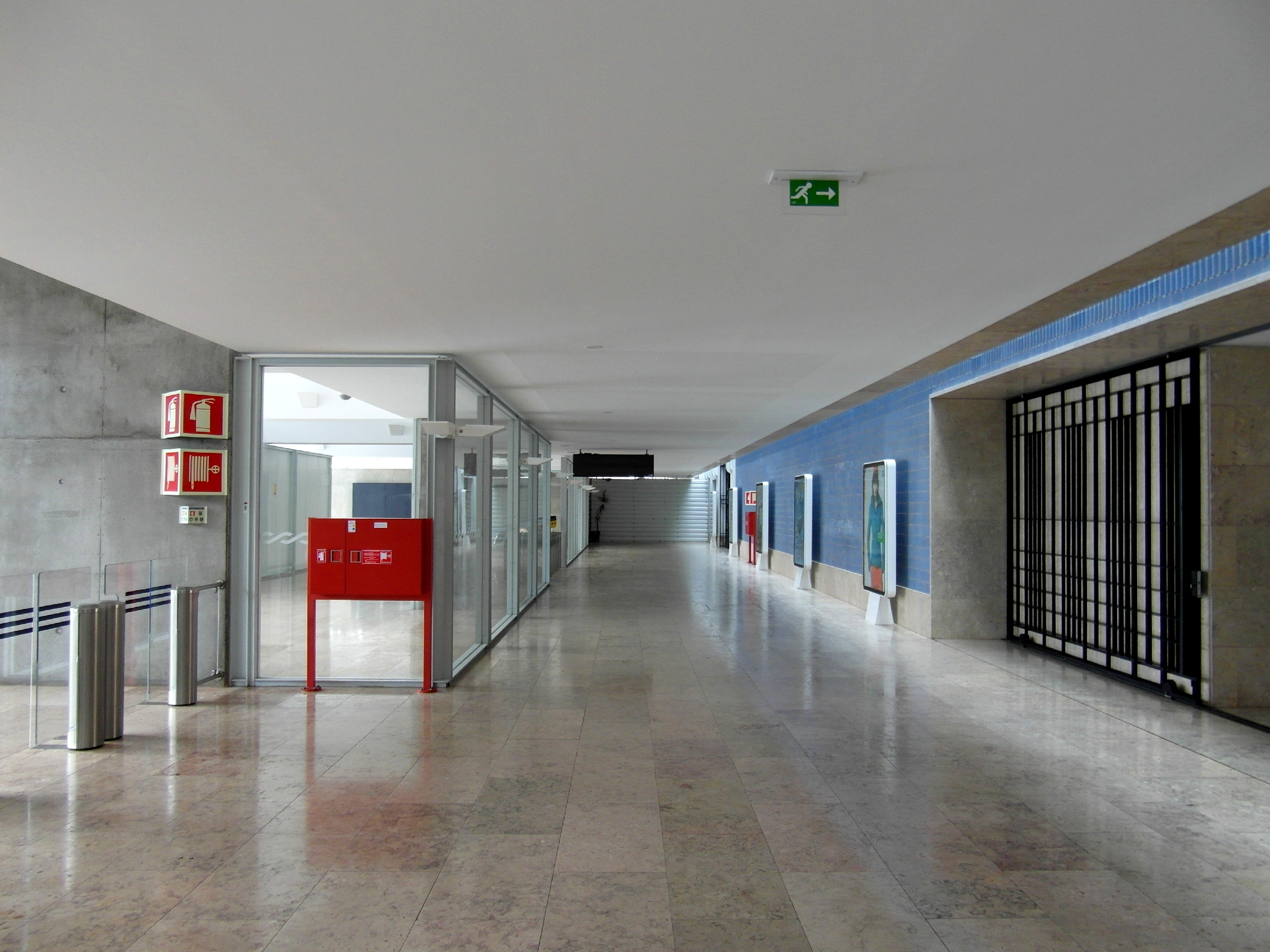 Terreiro do Paço underground station, Lisboa, Portugal